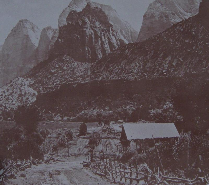 Crawford Ranch in Zion Canyon